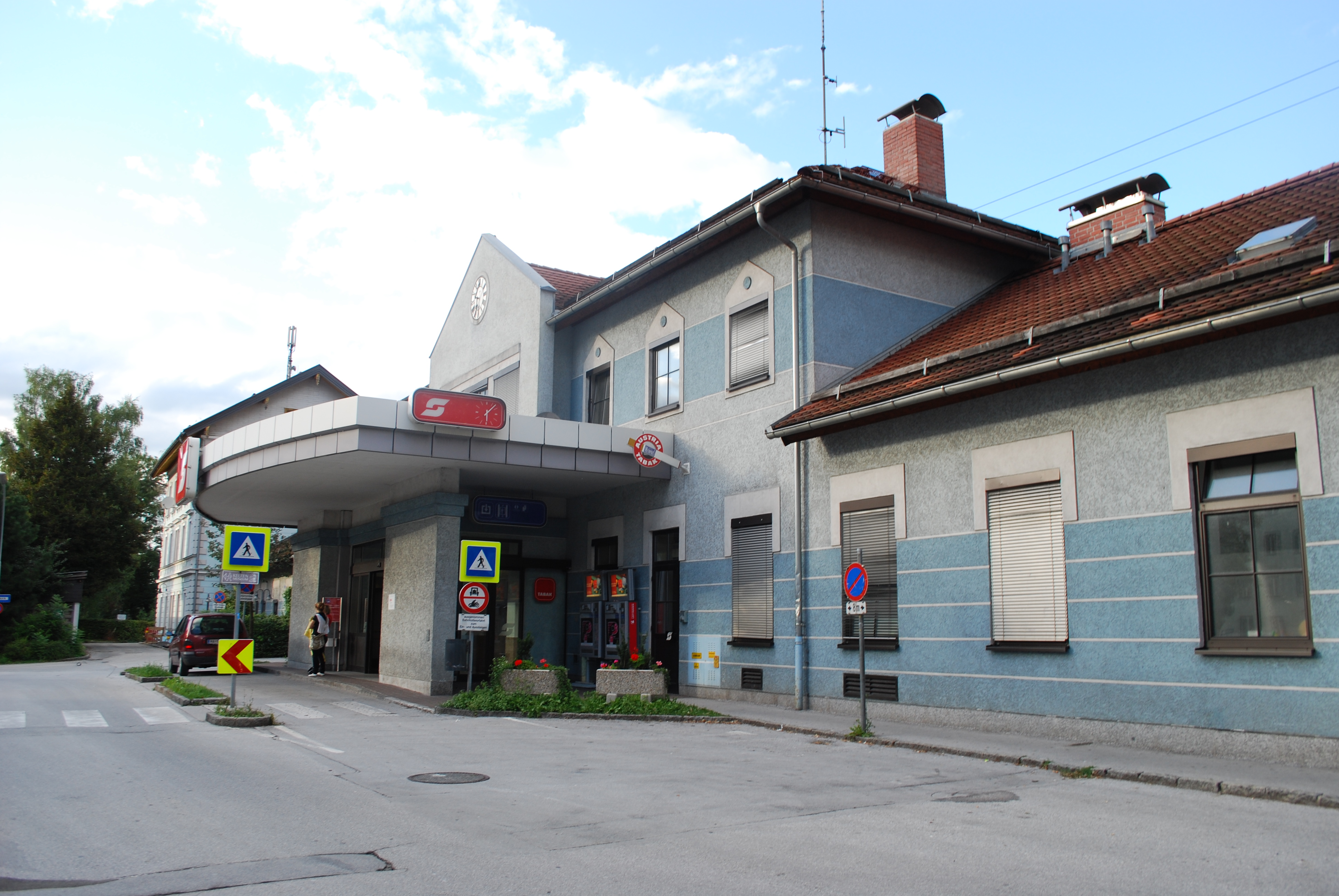 Hallein train station